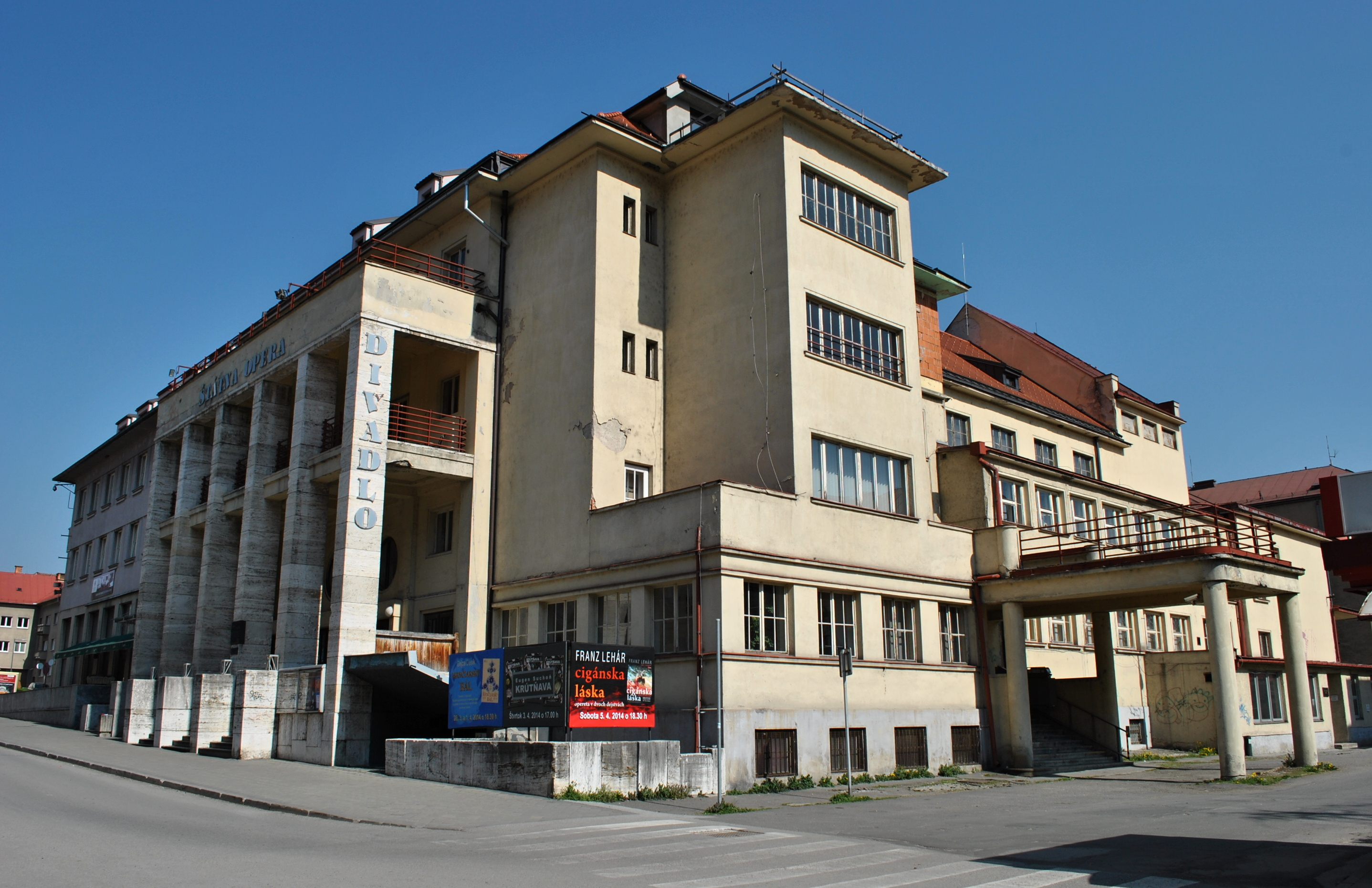 Building of the State Opera in Banská Bystrica, Slovakia